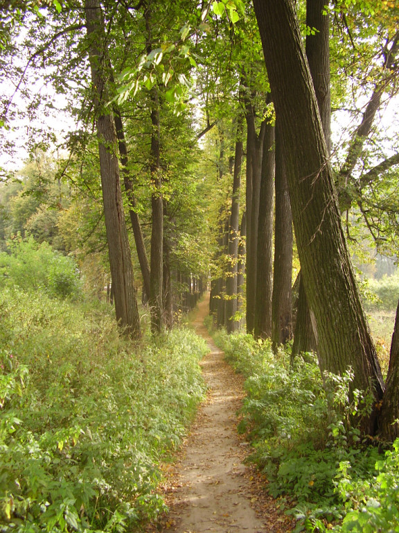 Fragment of linden alley of Park of the manor house of the barons Bode Family